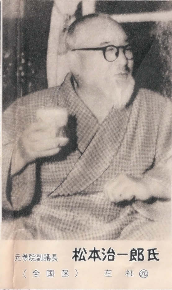 jiichiro matsumoto